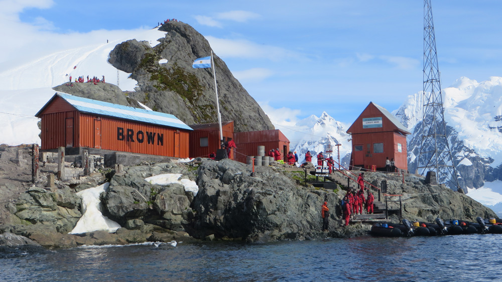 Tourists visit Brown Station in January 2014